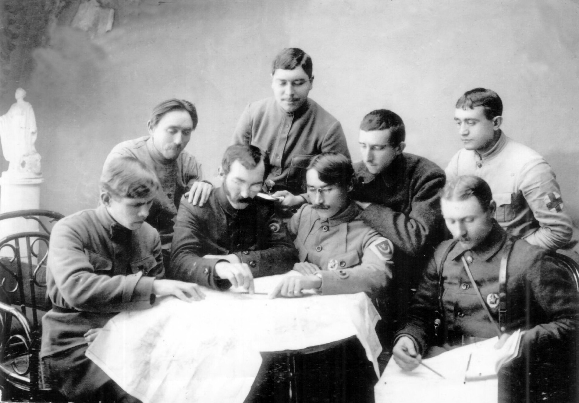 Штаб Башкирской отдельной кавалерийской дивизии. Петроград